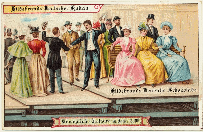 Germany in 2000 year (XXI century). Speedy trottoires. Germany, Hildebrand Factory chocolade.